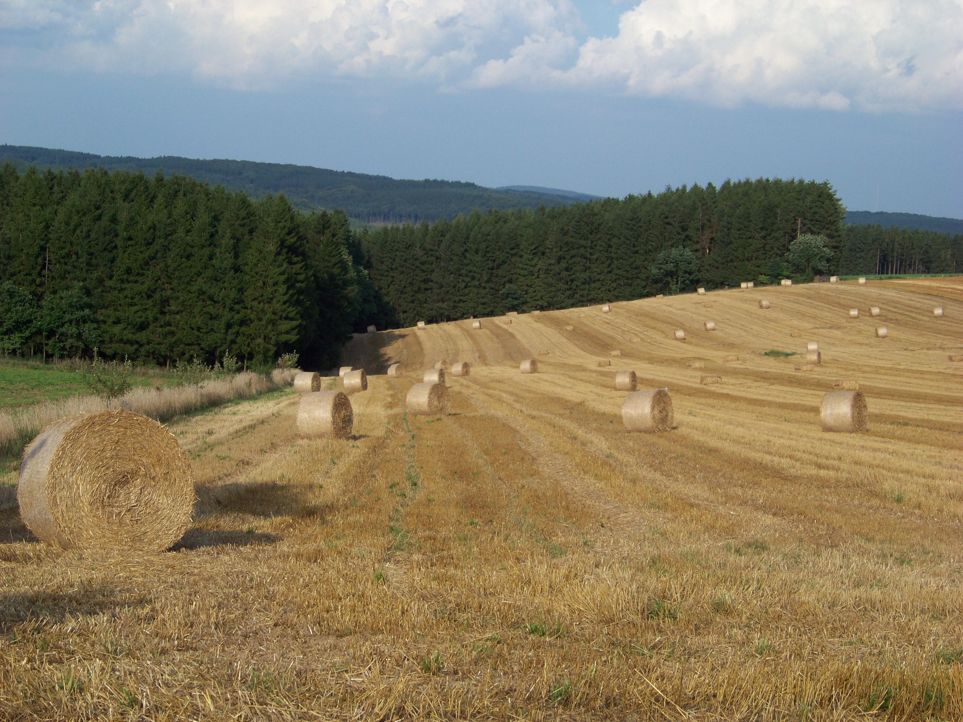 Round straw bales somewhere in Luxembourg